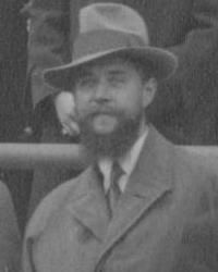 Gustav Doetsch, Mathematical Society Jena, visitors' conference at Abbeanum in Jena, 26th until 28th October 1930.